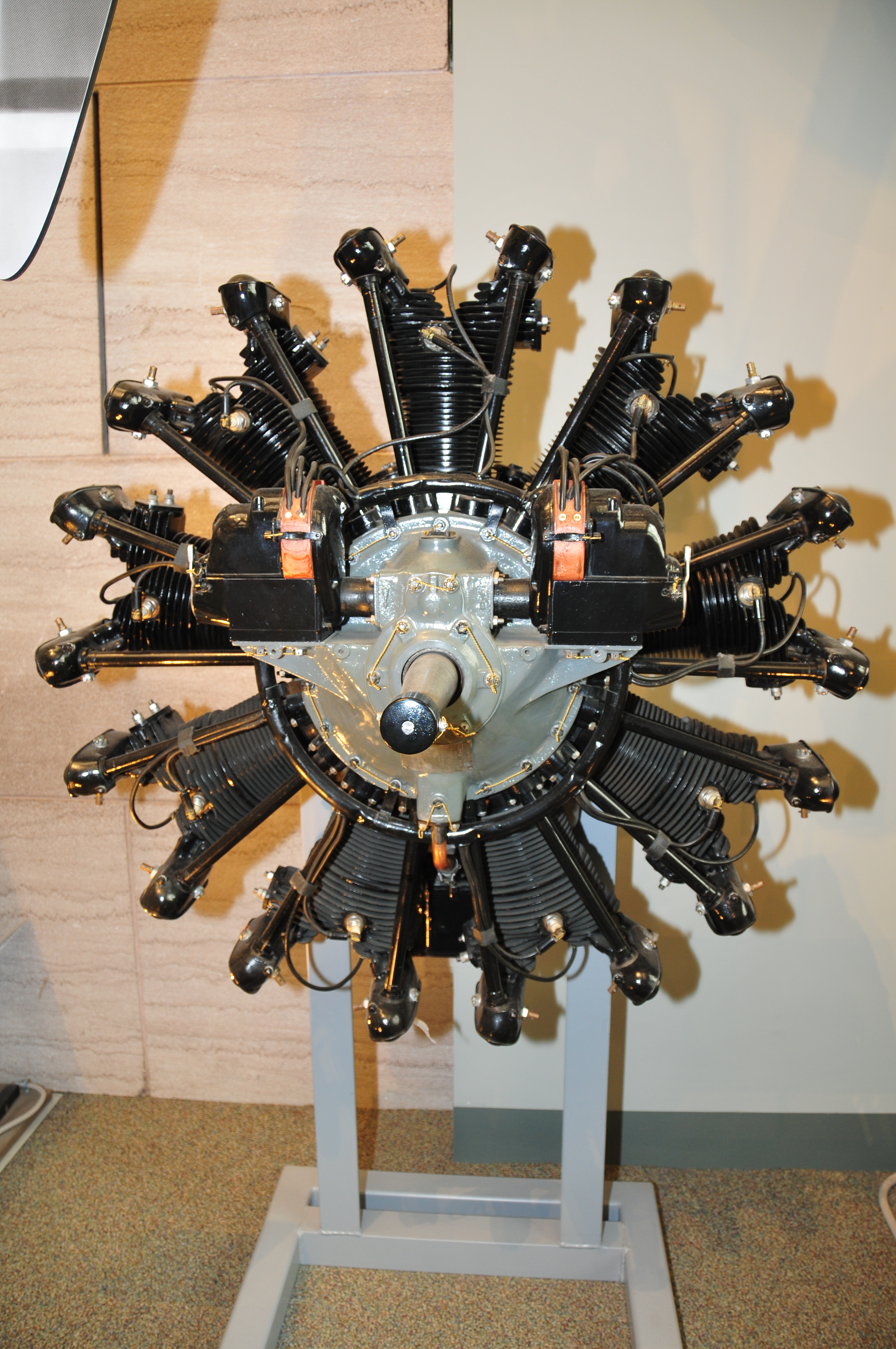 Wright J-5 Whirlwind on Display at Smithsonian Aerospace museum in Washington DC, United States